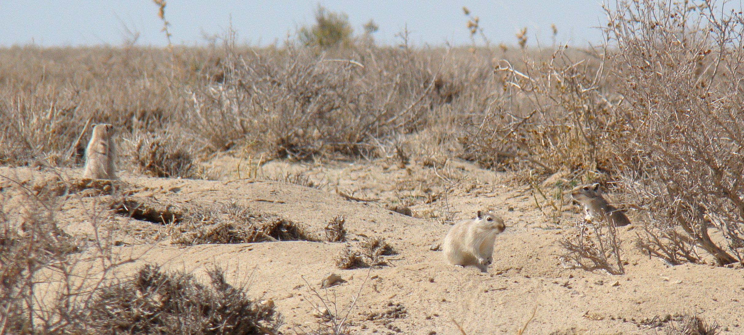 Colony of Great gerbils (Rhombomys opimus). Baikonur-town, Kazakhstan.